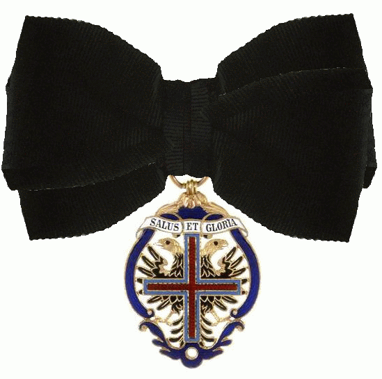 Hochadeliger Frauenzimmer-Sternkreuzorden Order of the Star Cross